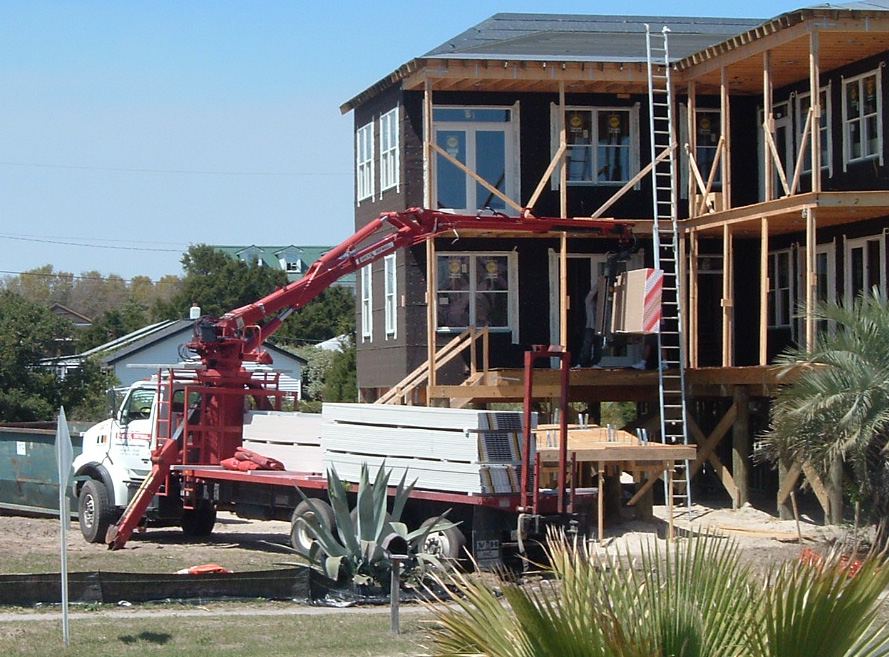 A flatbed truck with material handler unloading drywall. Note that instead of the drywall being carried one piece at at time to upper floors, the forked crane can just lift them up to an exterior door or window. Photo by KeepOnTruckin